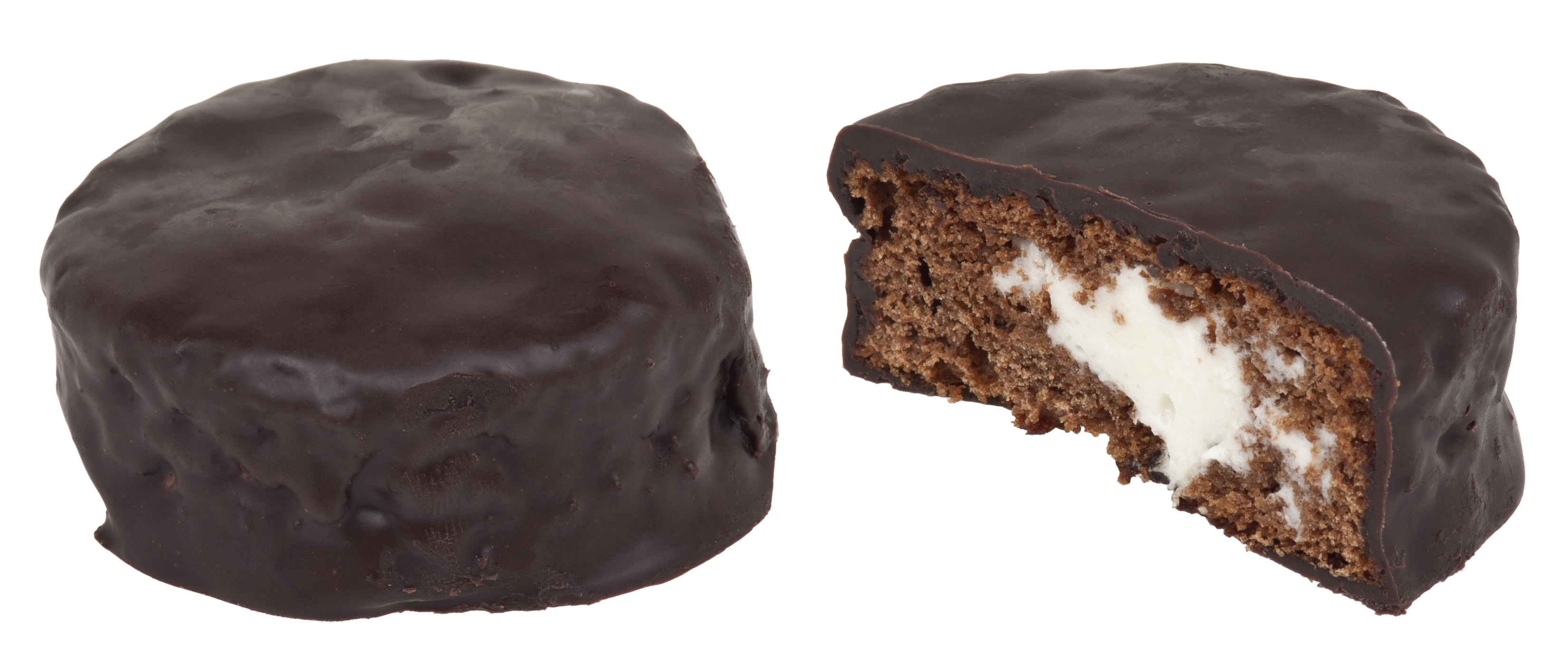 A pair of Drake's Ring Dings whole and split. These are chocolate snack cakes sold in America.